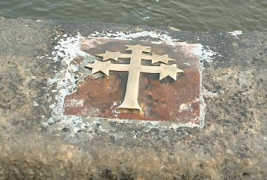 The place on Charles Bridge where Saint John Nepomucene was thrown into the river and drowned (Prague).